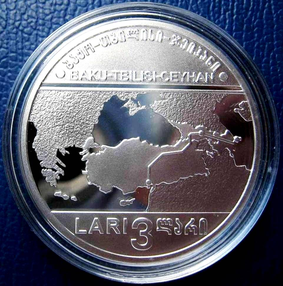 In 2006, the National Bank of Georgia issued 3 lari denomination silver and nickel silver commemorative coins to mark the anniversary of the launch of the Baku-Tbilisi-Ceyhan oil pipeline. The coins are minted at Mennica Polska, the Polish Mint.